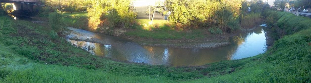 Greve river near Bottai (Impruneta, FI, Italy)